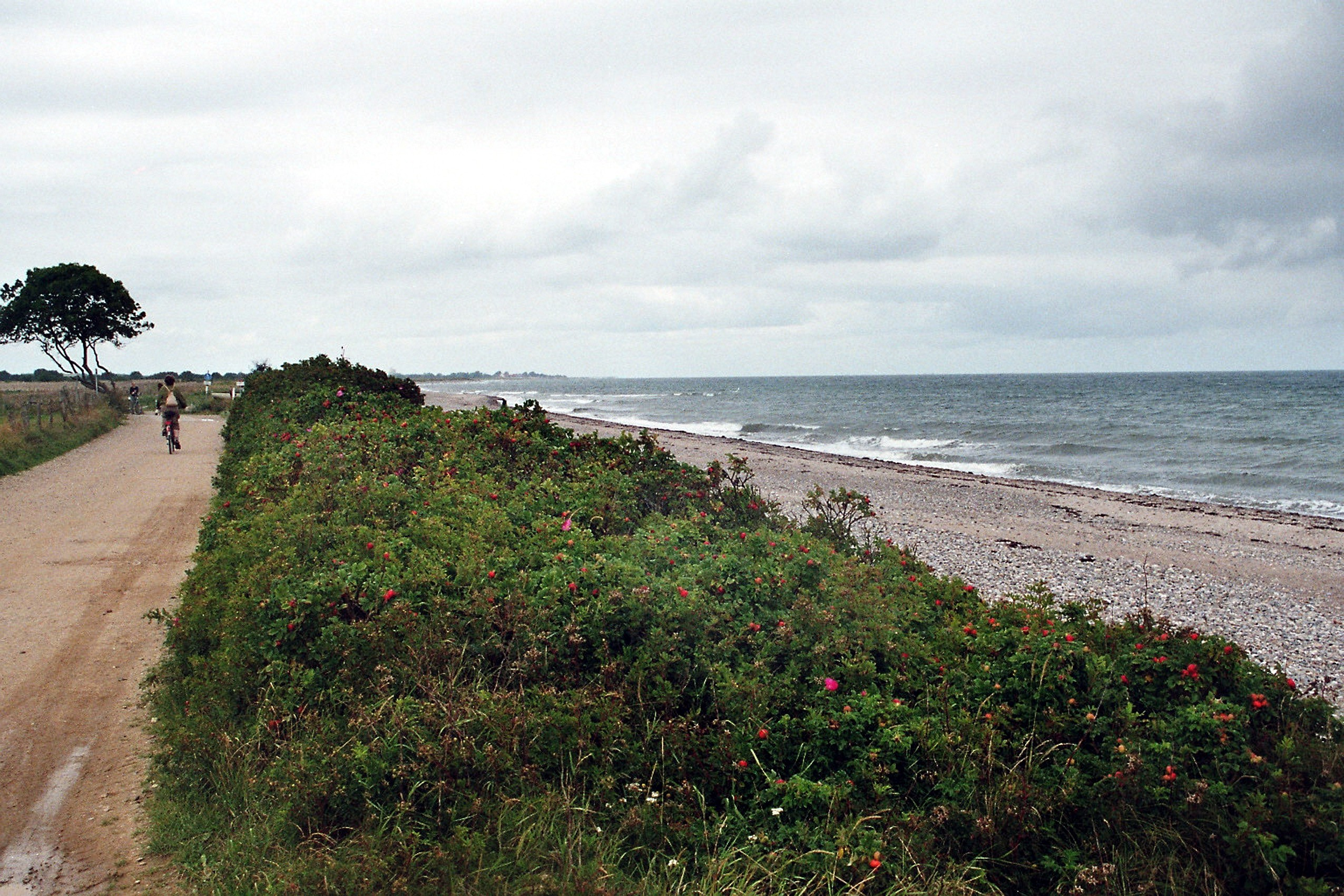 Hohenfelde (Krs. Plön), way at the beach